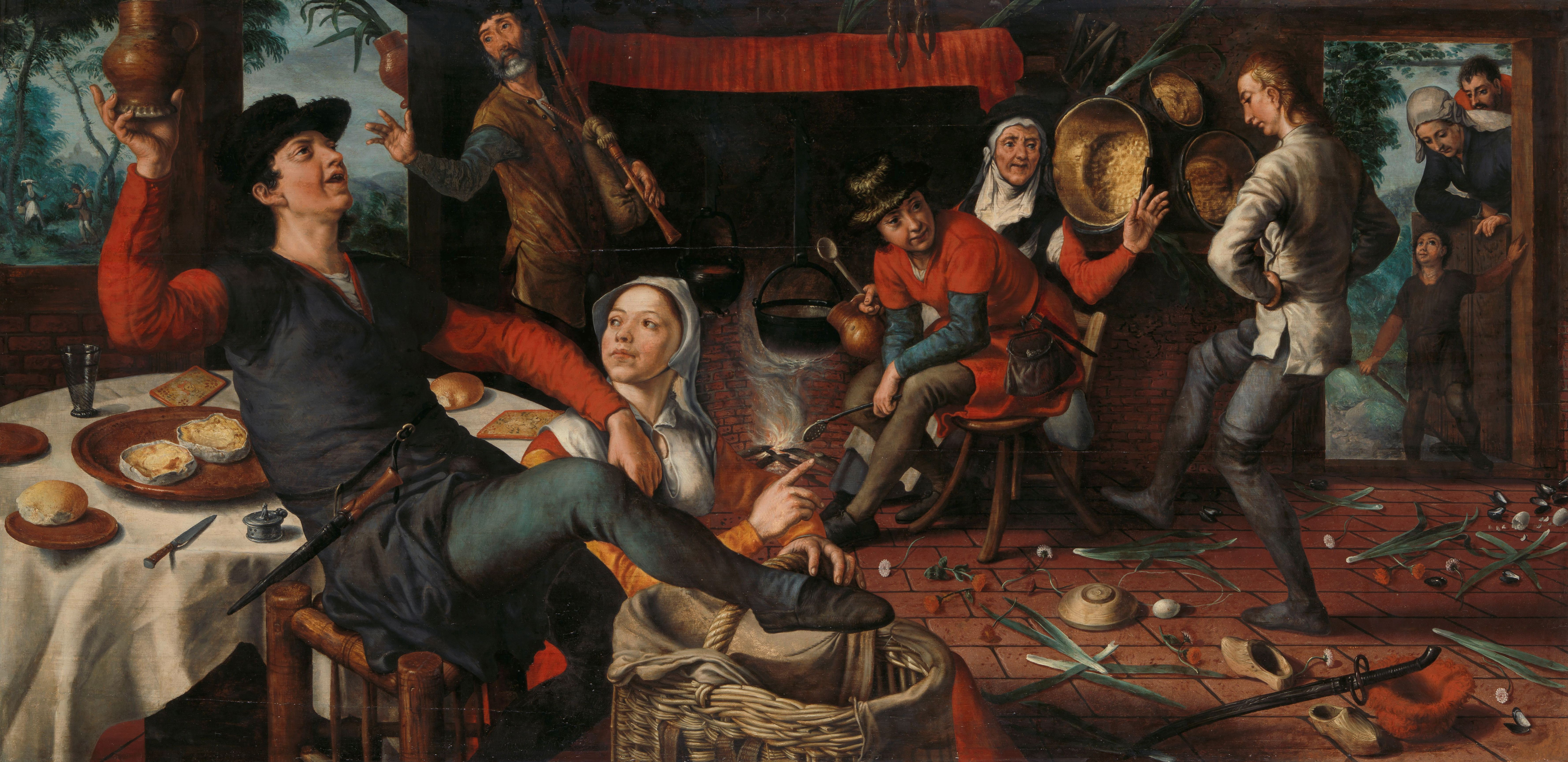 The egg dance. Interior of a farmhouse with several figures by the fire place and at the table. To the right a young man is dancing. To the left a man is drinking from a jug. By the fireplace a bagpiper is standing.